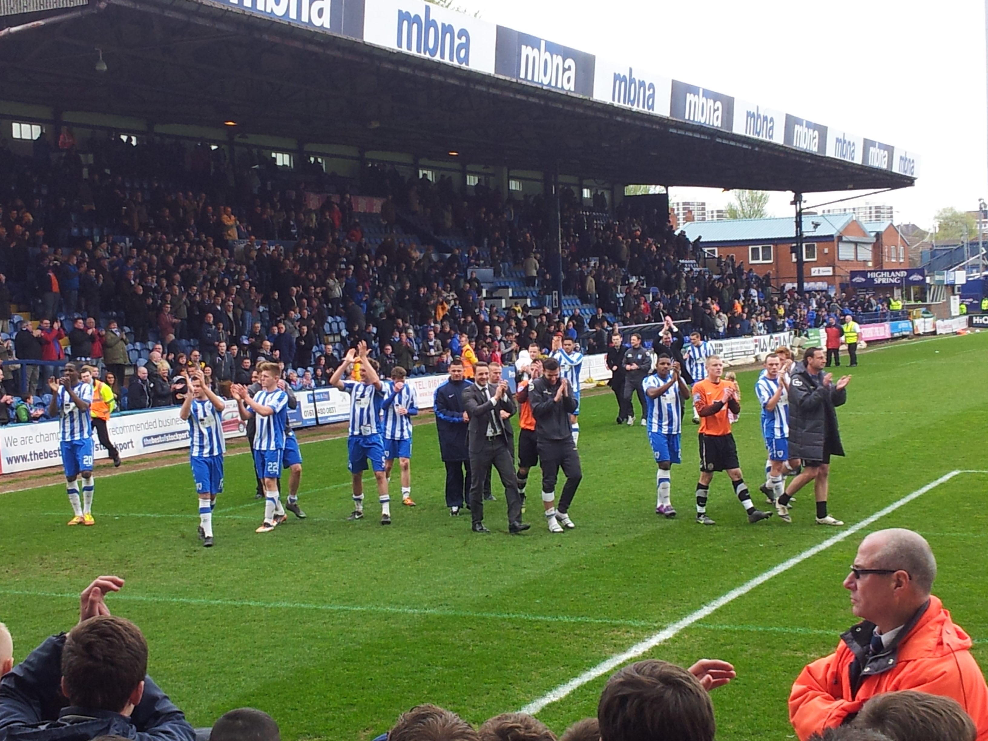 The County squad thank the fans.